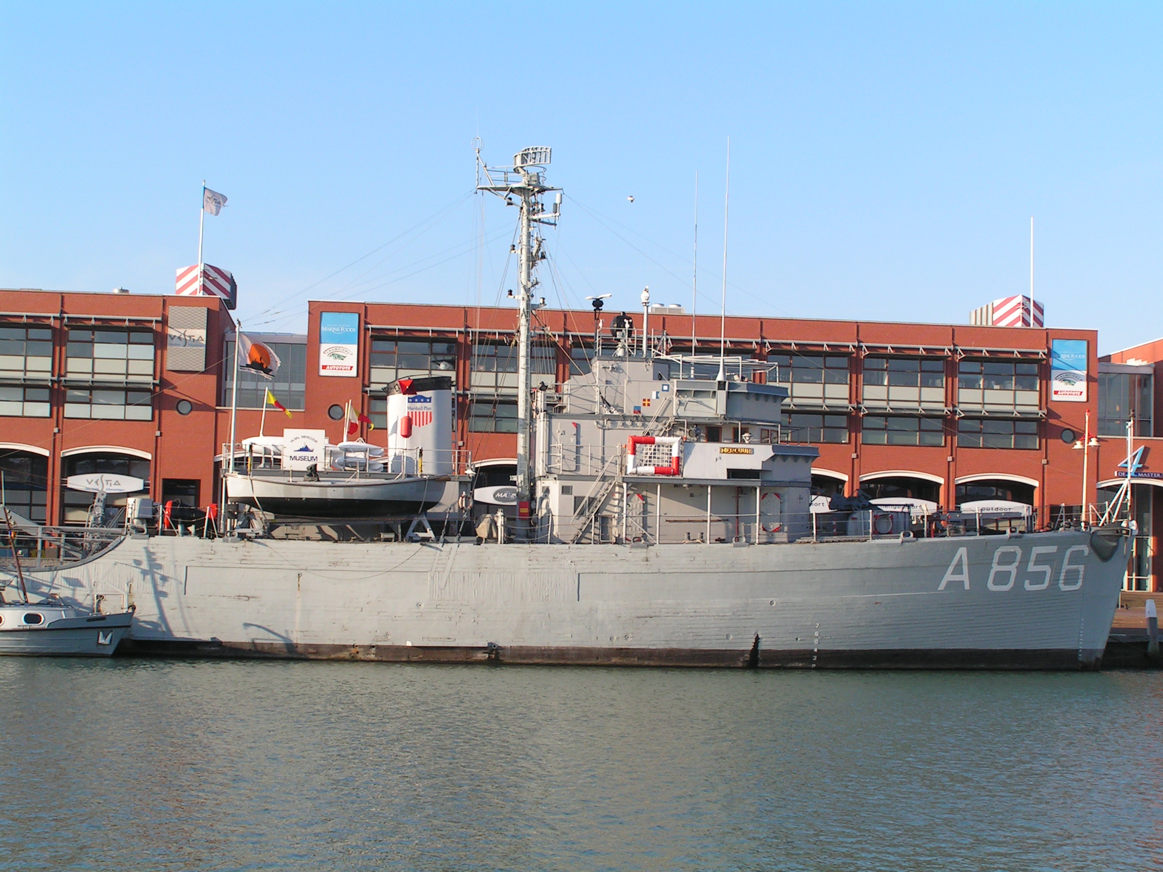 Hr.Ms. Mercuur (A856) a former Dutch Minesweeper, Scheveningen harbour.